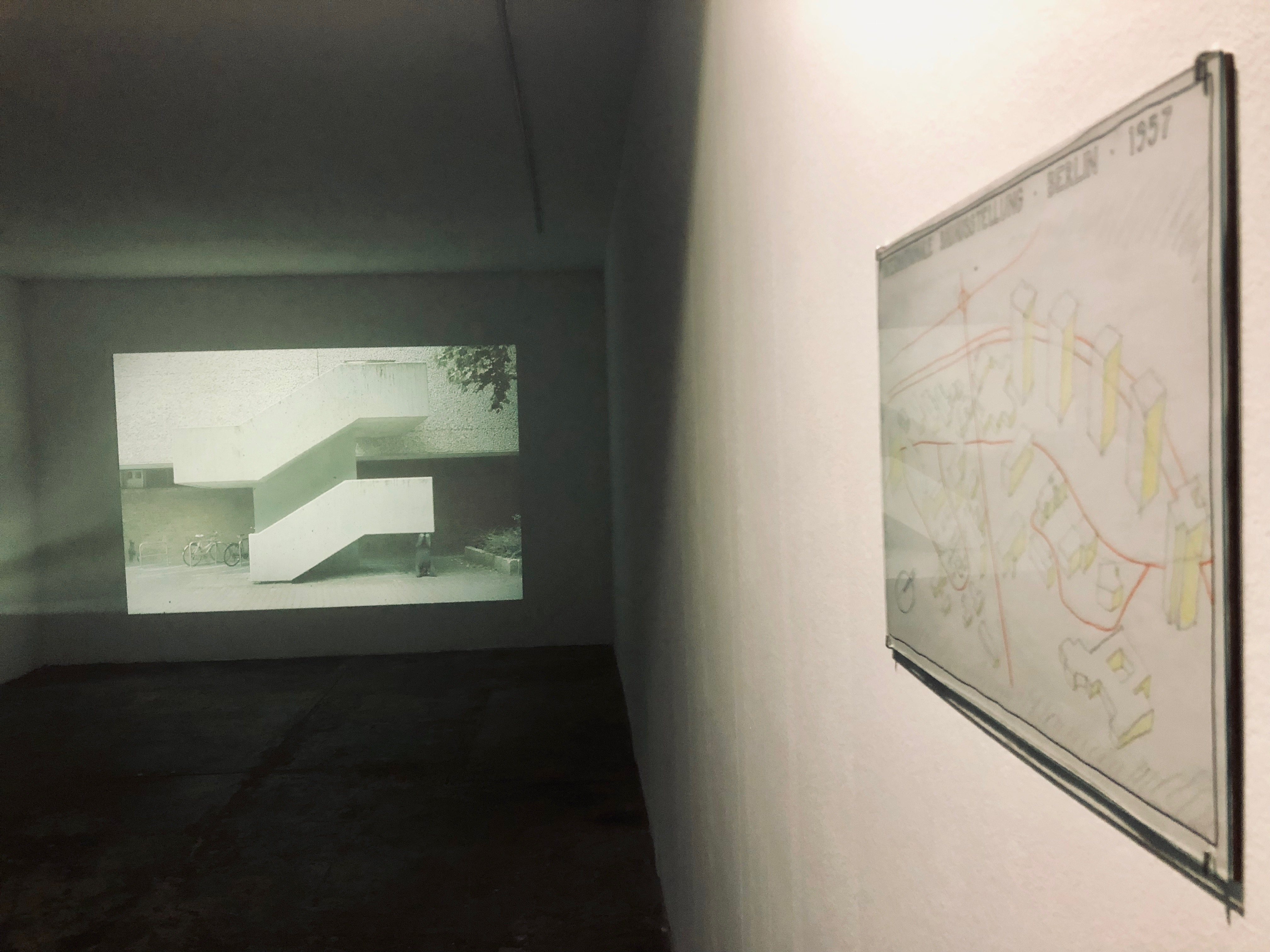 Image of Ramiro Guerreiro's work "Entalados" (2015) in the exhibition "Vanishing Point - works of art of the António Cachola collection" in the Torreão Nascente da Cordoaria Gallery, Lisbon, Portugal.